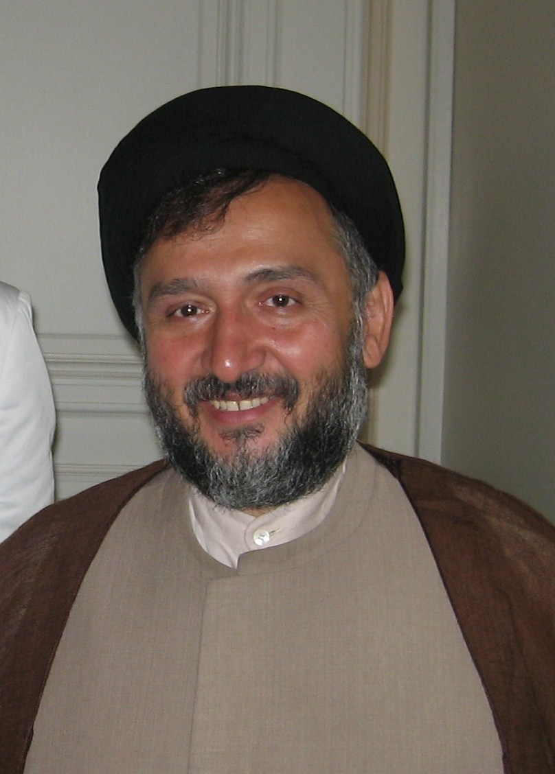 Mohammad Ali Abtahi in Baran Foundation office.